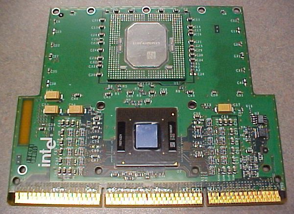 Pentium II Xeon. 450 MHz, 512 KB cache, 100 MHz FSB. Numbers on cartridge are: 450/100/512 S2, 8400533-0130 Philippines, SL354. Number on top chip is: L8343359-0413. Numbers on bottom chip are: 7837A324, 21831008BF, and 2143.